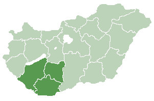 Dél-Dunántúl region of Hungary.